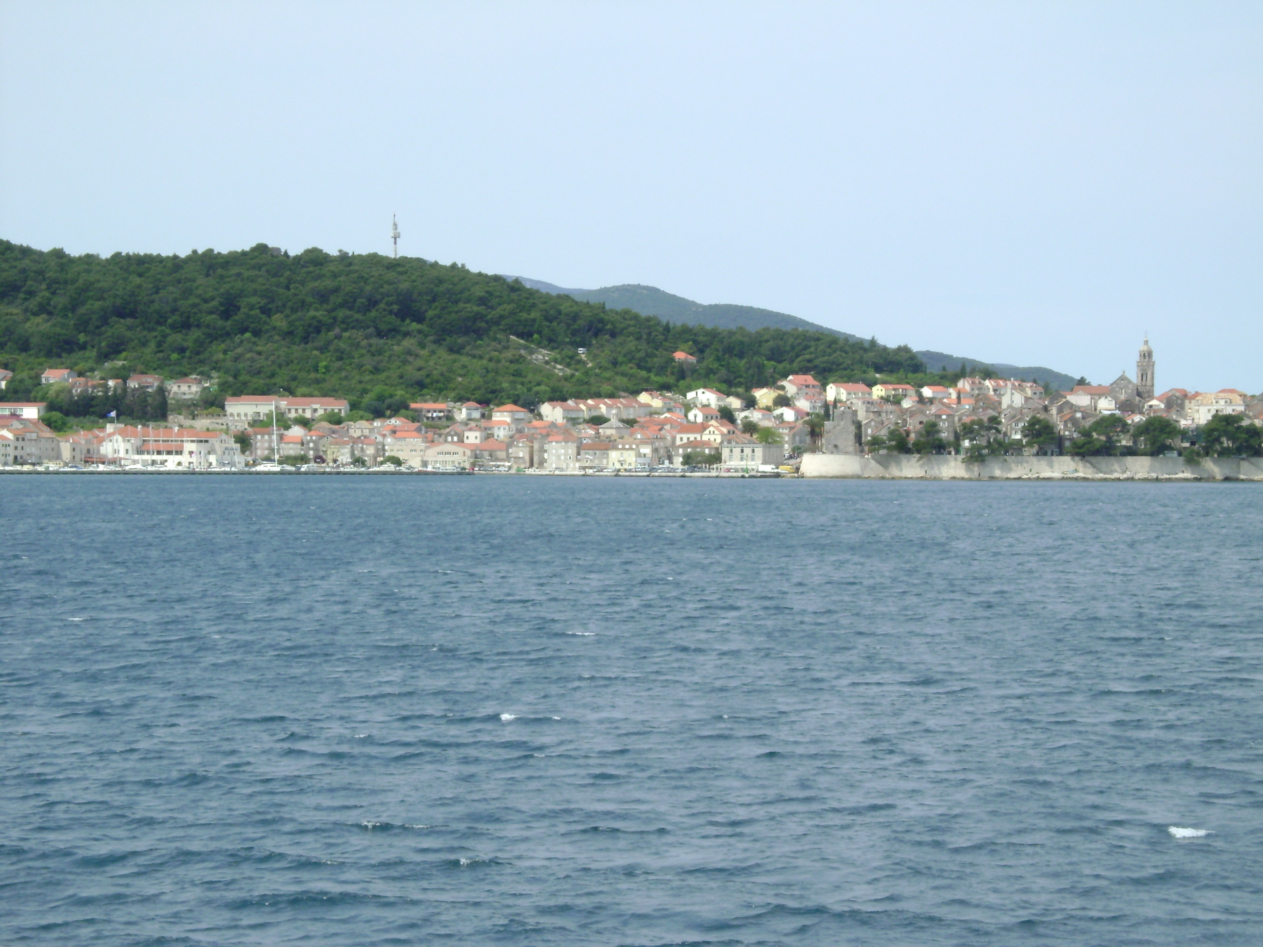 Picture of town of Korcula, made from ferry